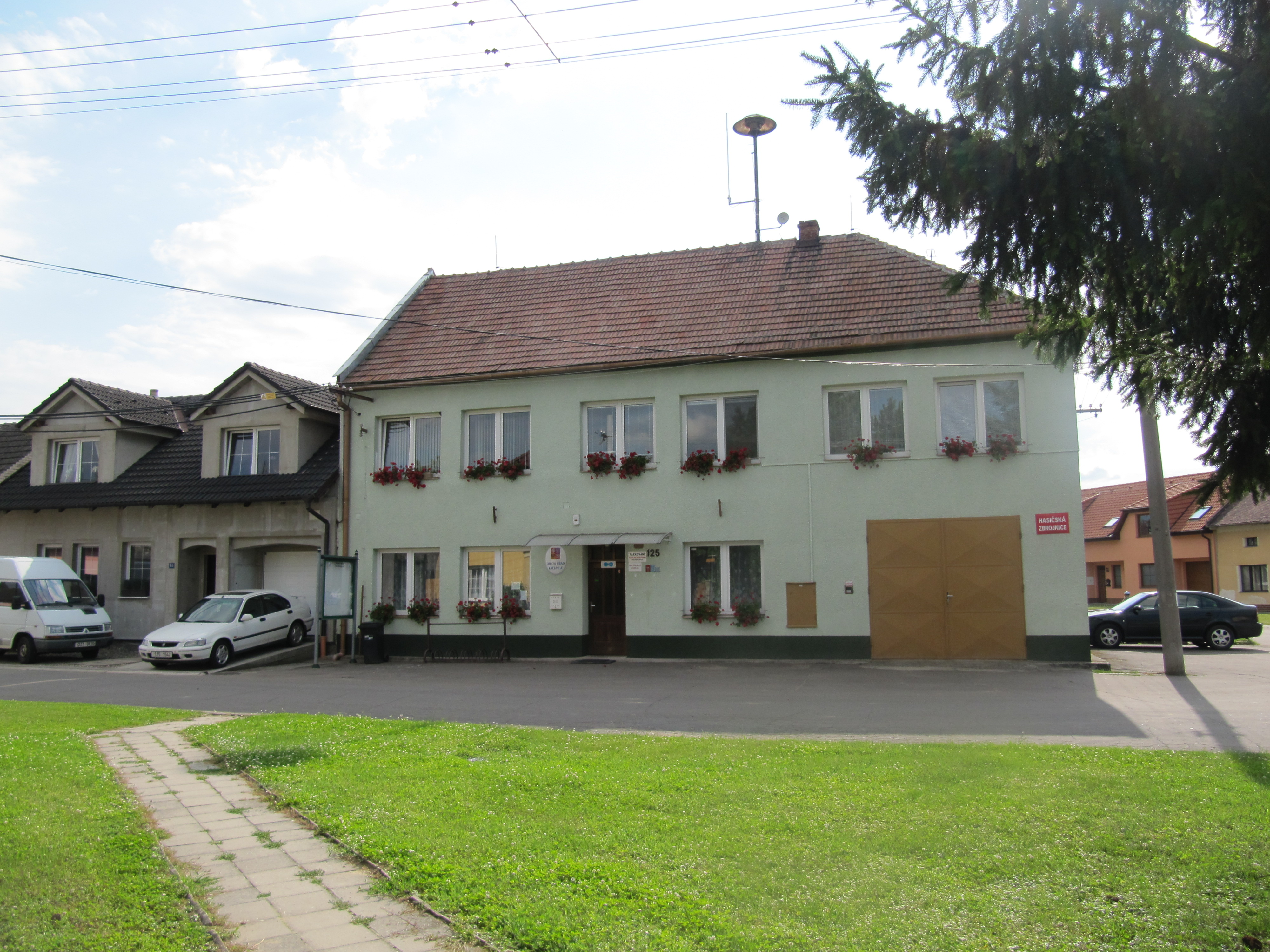 Kněžpole in Uherské Hradiště District, Czech Republic. Municipal office.